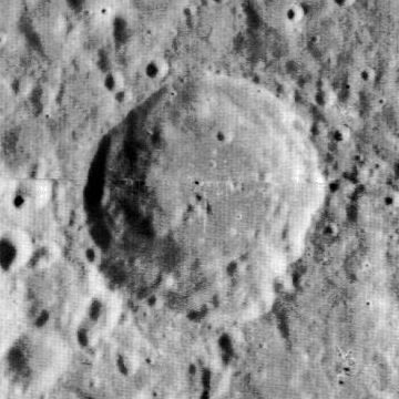 Dewar, on the far side of the moon. North at top.